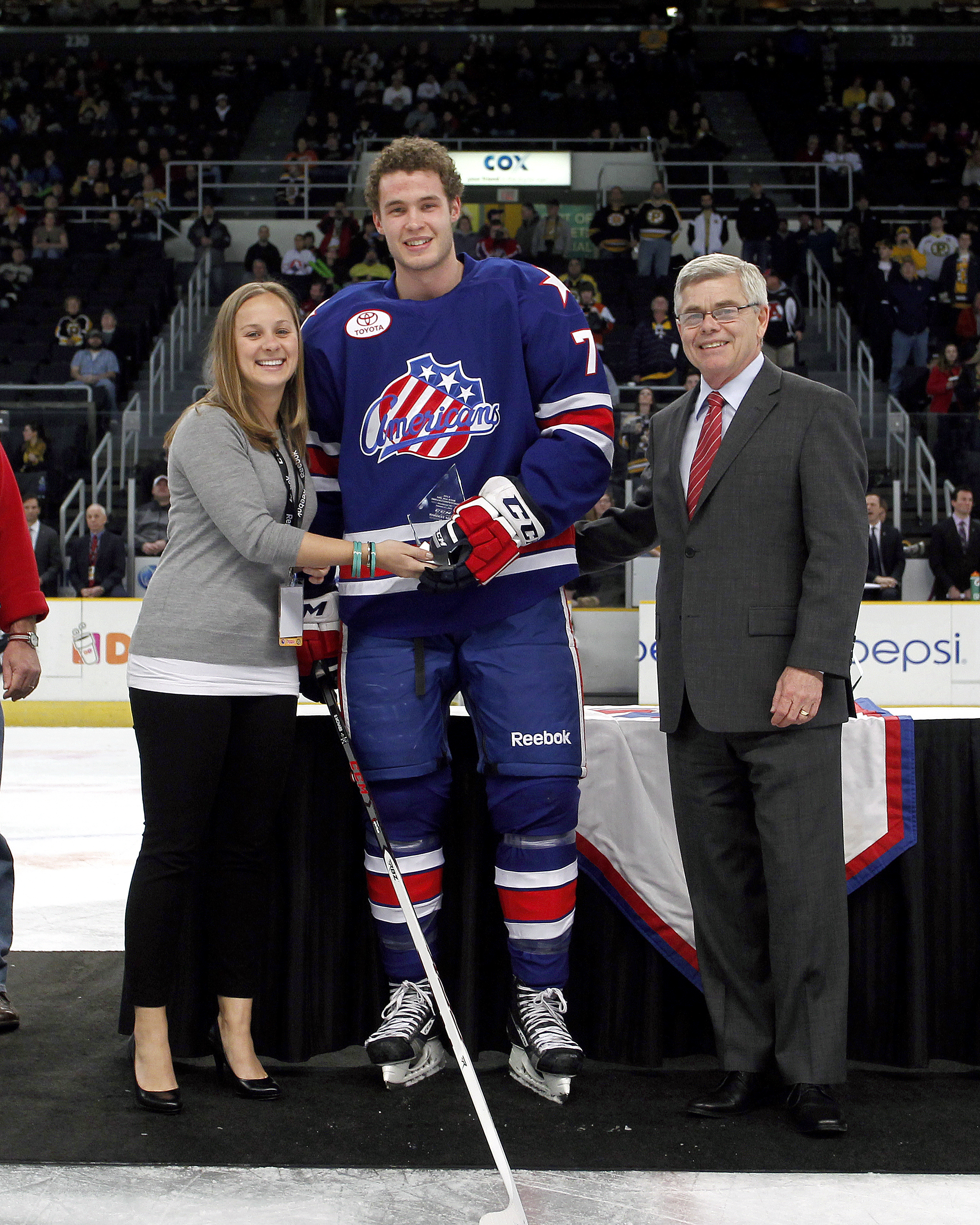 Awards2 American Hockey League (AHL). 2013 All-Star Skills Competition. Taken on January 27, 2013.